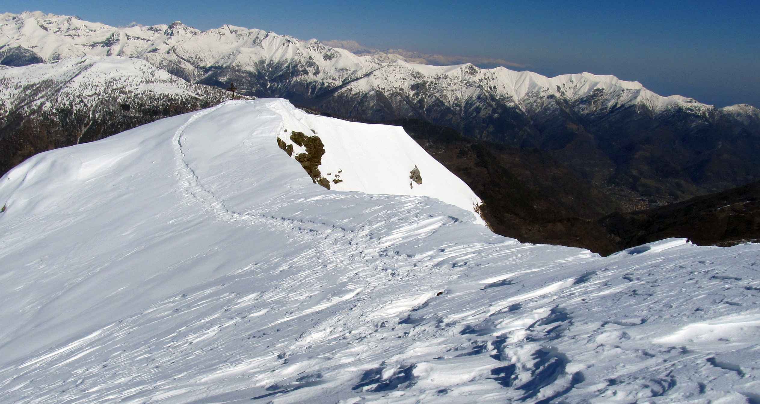 Rocca Bianca (Cottian Alps; To, Italy): the cross seen from the highest point of the mountainPiemontèis: La Ròca Bianca (Val Germanasca): la cros ën 'sla sima